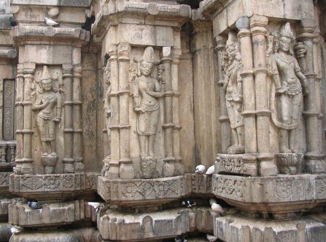 Sculptures carved on the Kamakhya Temple of Assam, India. অসমীয়া: কামাখ্যা মন্দিৰ হৈছে অসমৰ গুৱাহাটীত অৱস্থিত হিন্দু ধৰ্মৰ এক মন্দিৰ।